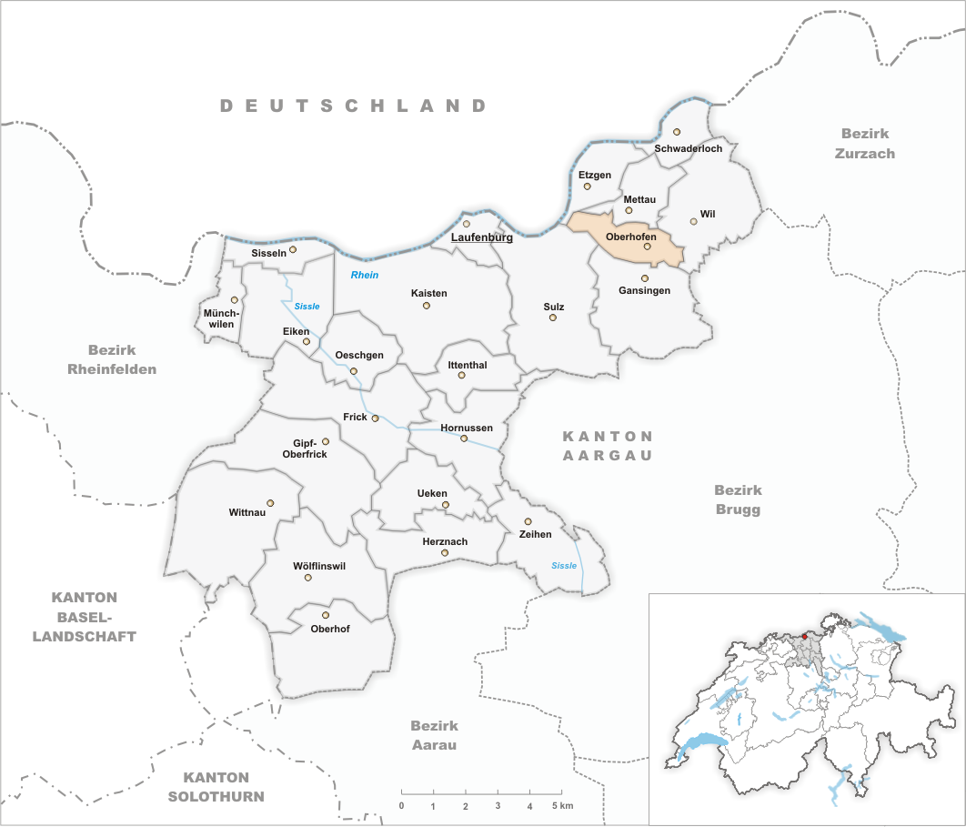 Municipality Oberhofen